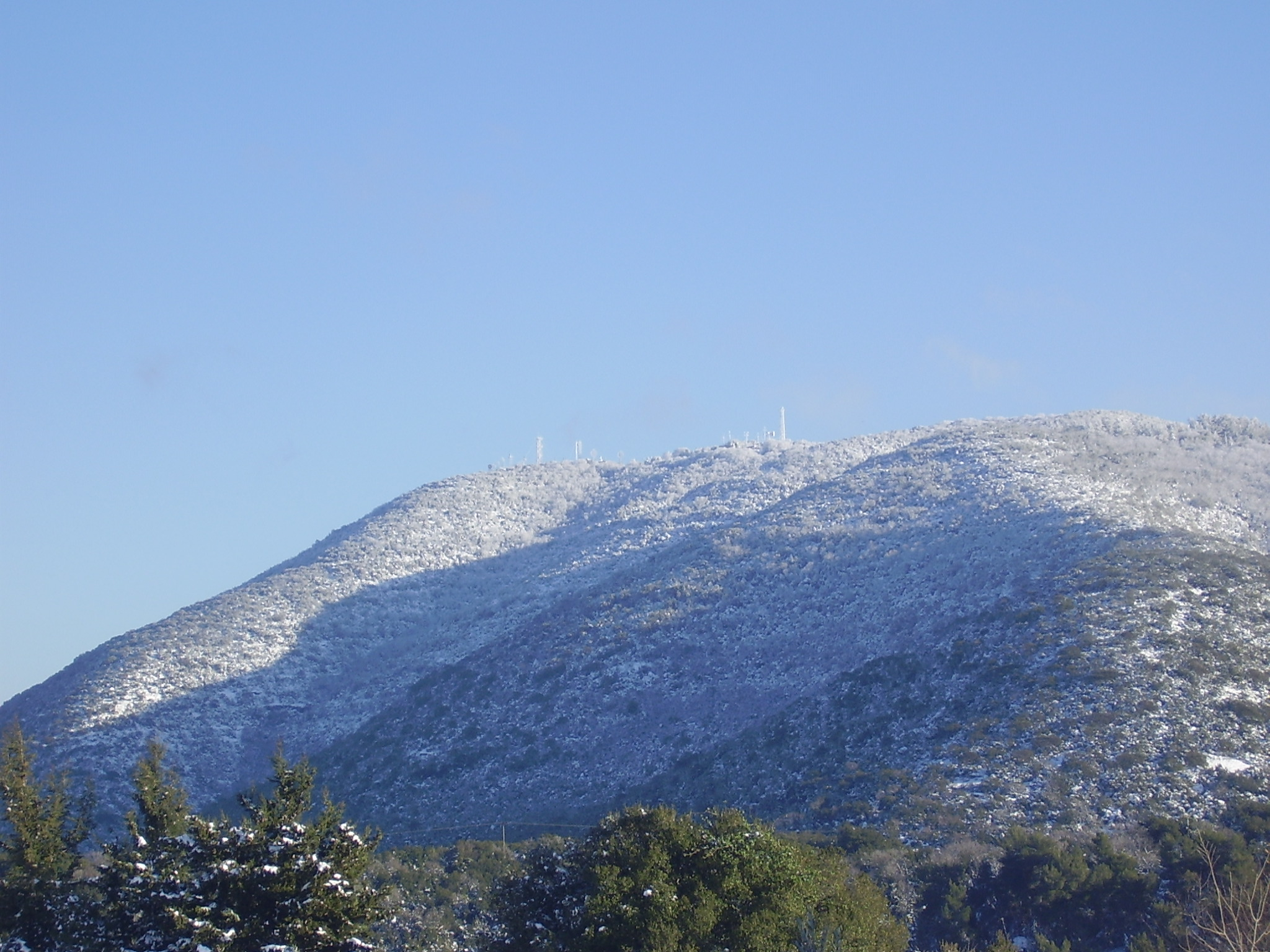 snow in Mount Meron, israel